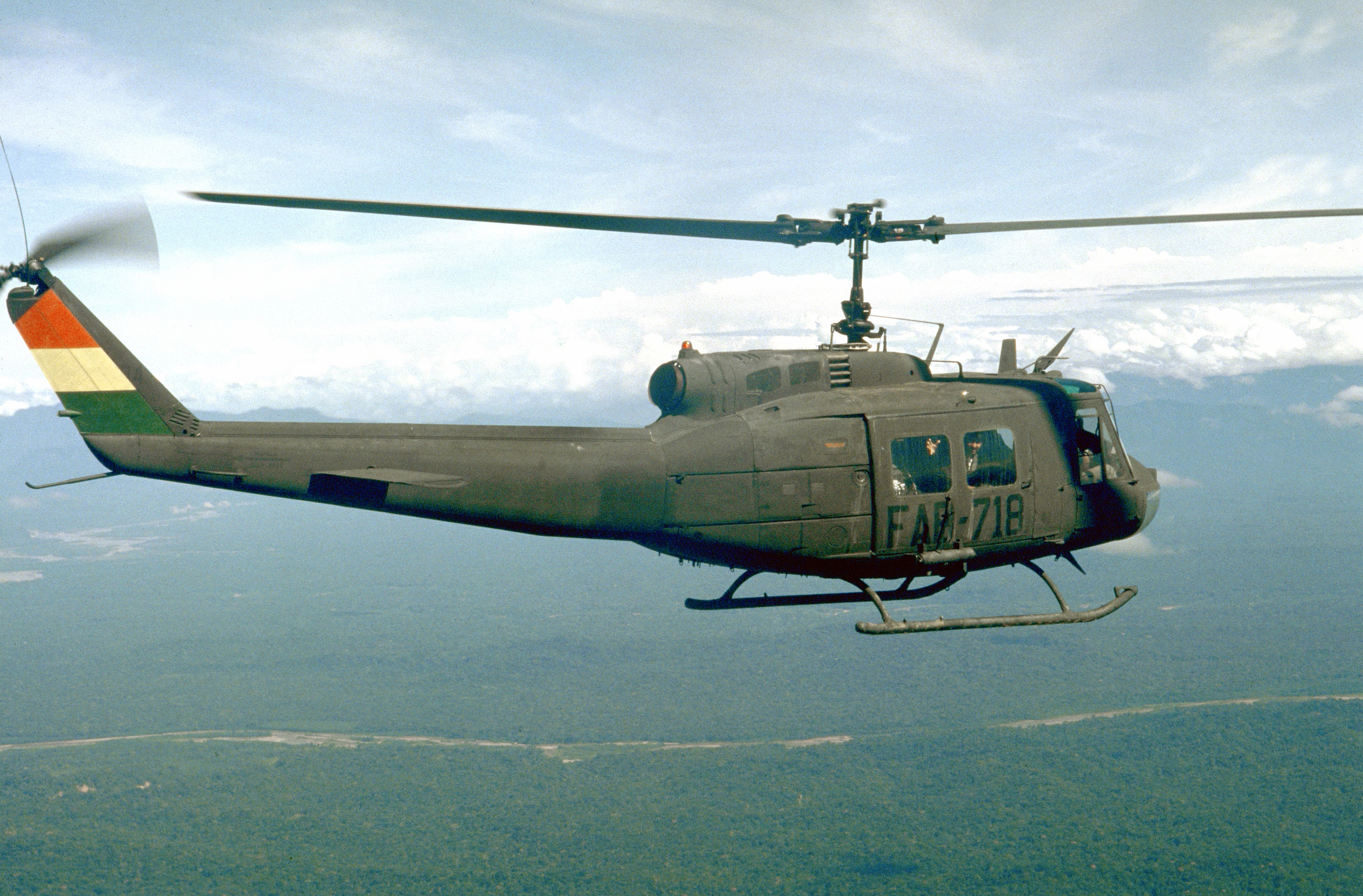 A Fuerza Aérea Boliviana (FAB, Bolivian Air Force) Bell UH-1H Huey helicopter in flight during the joint Bolivia/U.S. exercise "Fuerzas Unidas" on 1 May 1987.